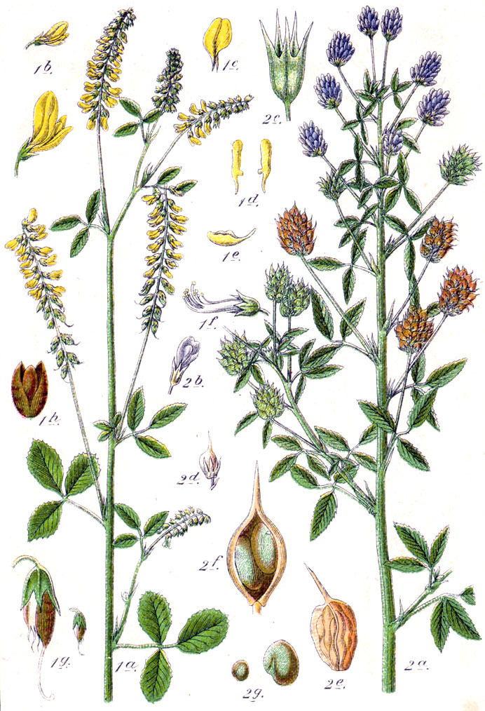 1. Melilotus officinalis (L.) Lam. 2. Trigonella procumbens (Besser) Rchb., syn. Trigonella besseriana Ser. Unresolved name: Medicago besseriana E.H.L.Krause Original Caption 1. Echter Steinklee, Medicago officinalis 2. Echter Ziegerklee, M. besseriana coerule